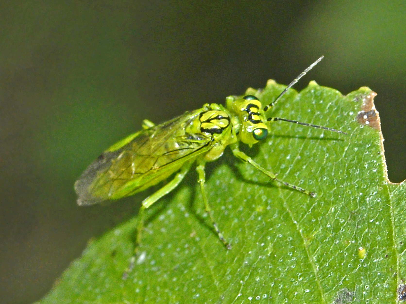 Rhogogaster punctulata. Val Ferret, Aosta, Italy